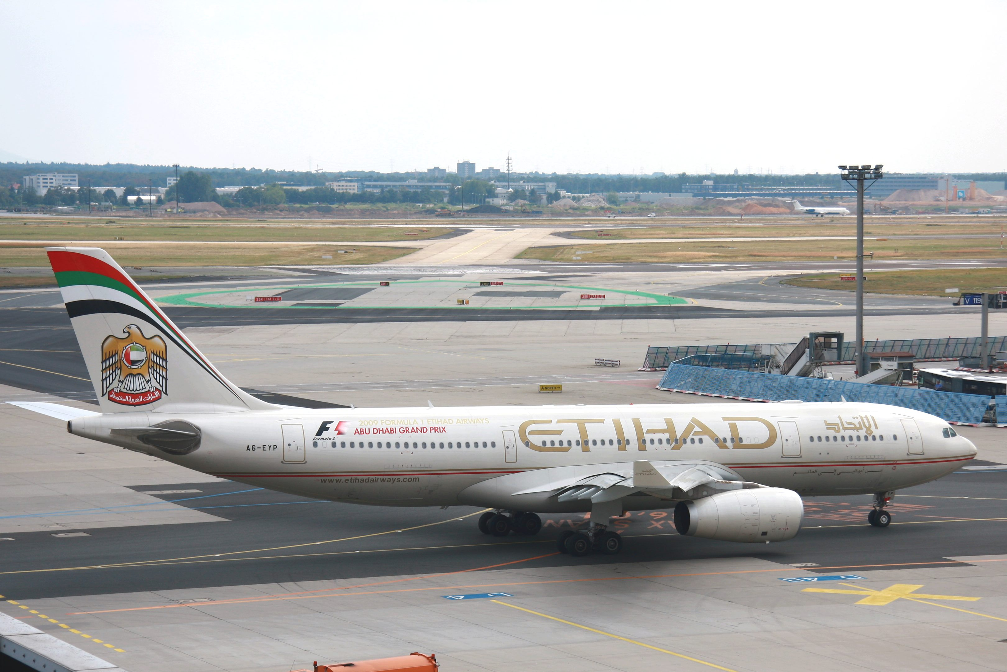 An Airbus A330-243 of Etihad Airways